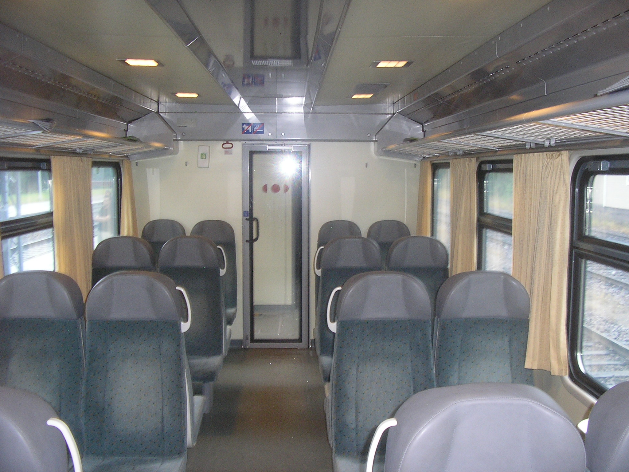 Interior of VR Class Dm12 diesel multiple unit